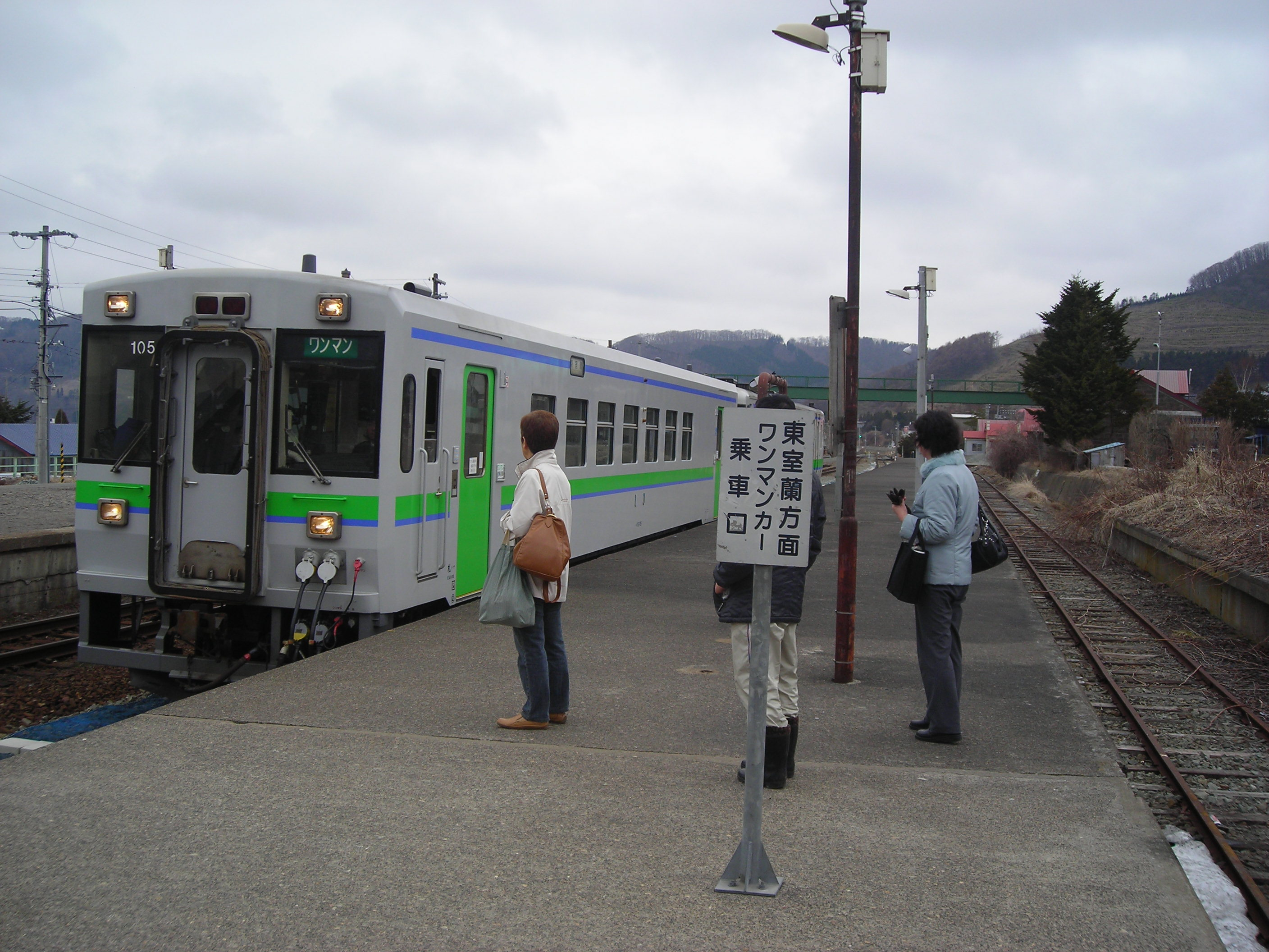 Local train for Muroran, consists of 2 cars, at Toyoura Station